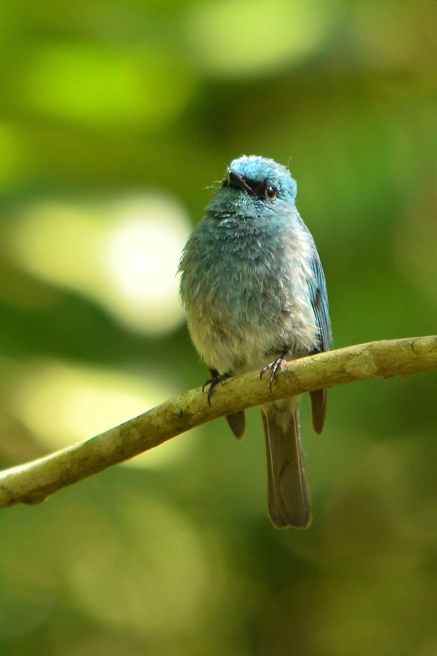 A male of Turquoise Flycatcher (Eumyias panayensis) at Mount Mahawu, North Sulawesi